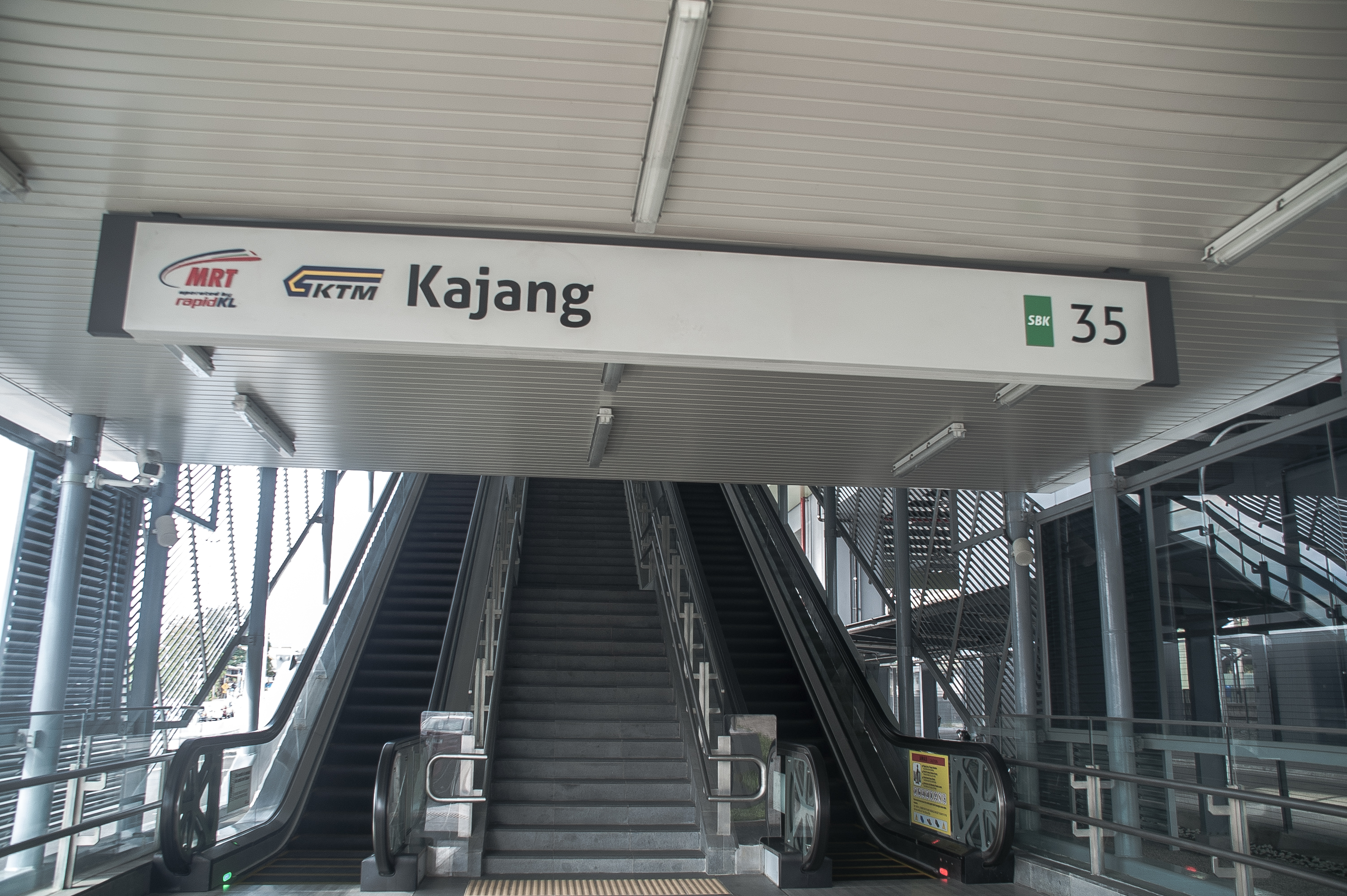 The entrance that leads to the railway station of Kajang.